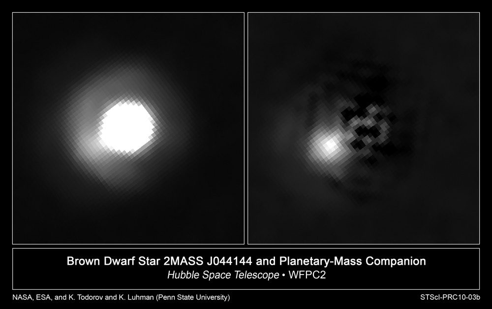 Brown dwarf 2M044144 and planet